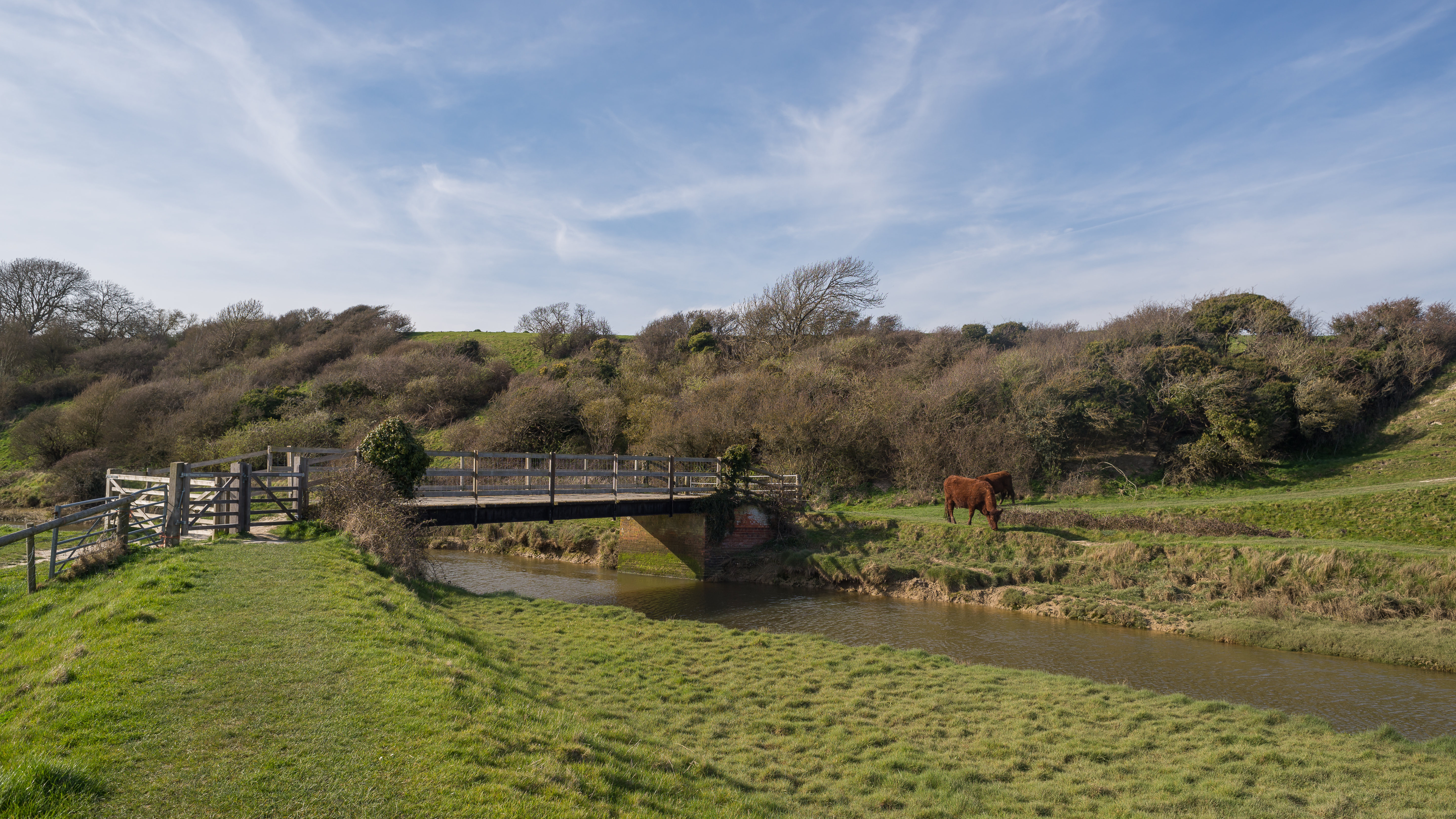 River Cuckmere. Wealden District, East Sussex, England.